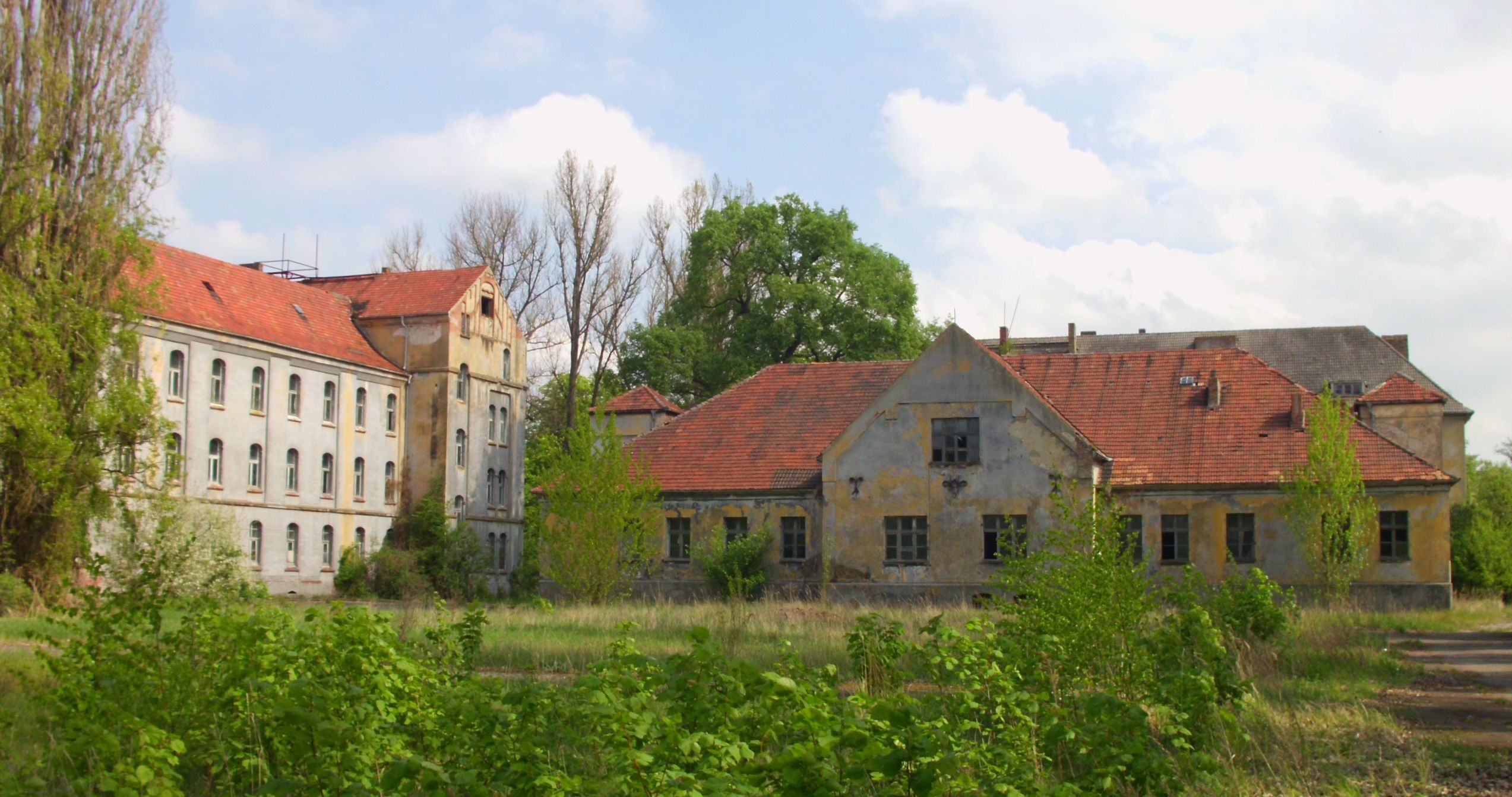 Küstrin-Kietz Oderinsel barracks, main barracks (links) and staff building (rechts) (parade ground side)